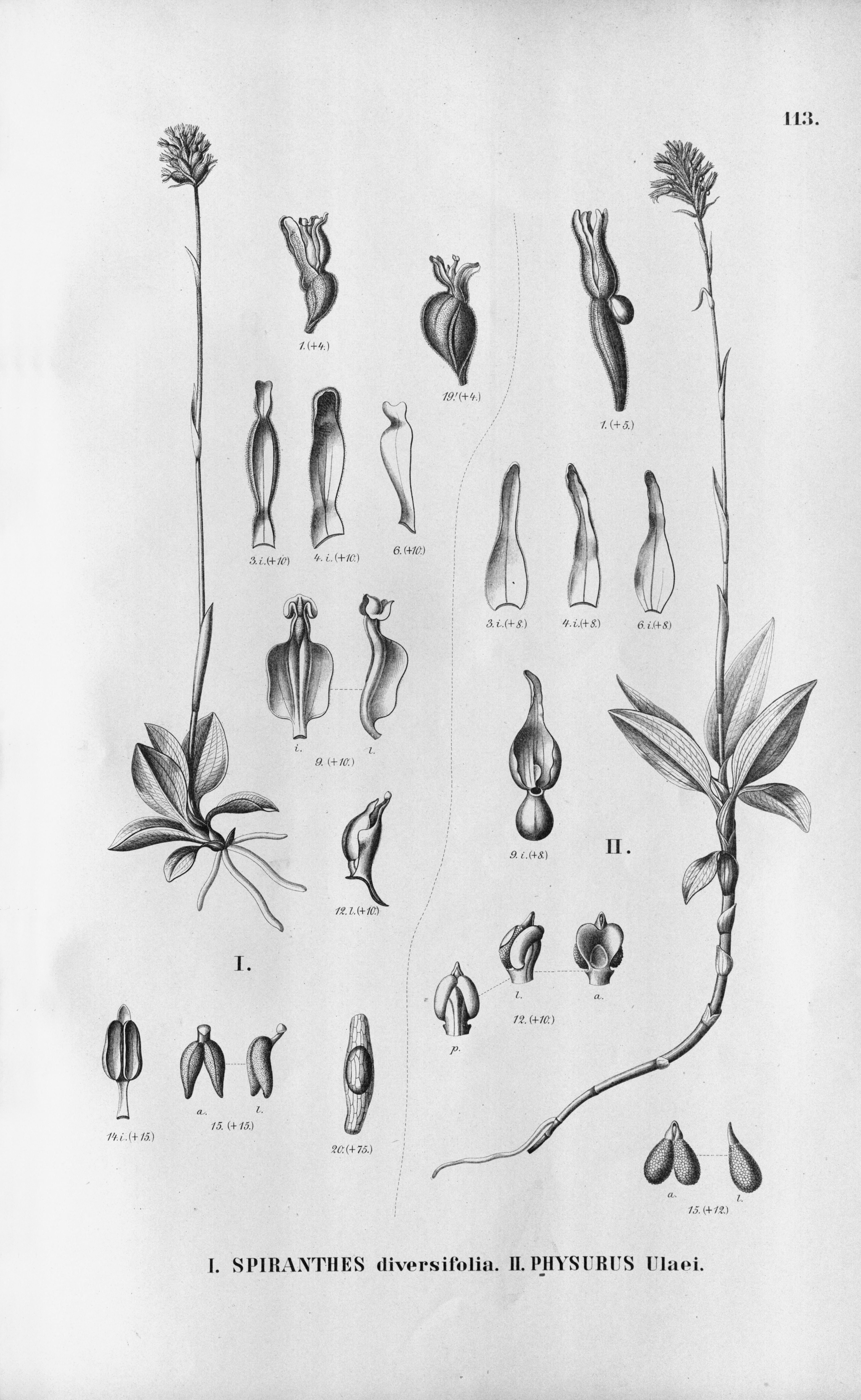 Illustration of I. Cyclopogon apricus (as syn. Spiranthes diversifolia) II. Microchilus austrobrasiliensis (as syn. Physurus ulaei)